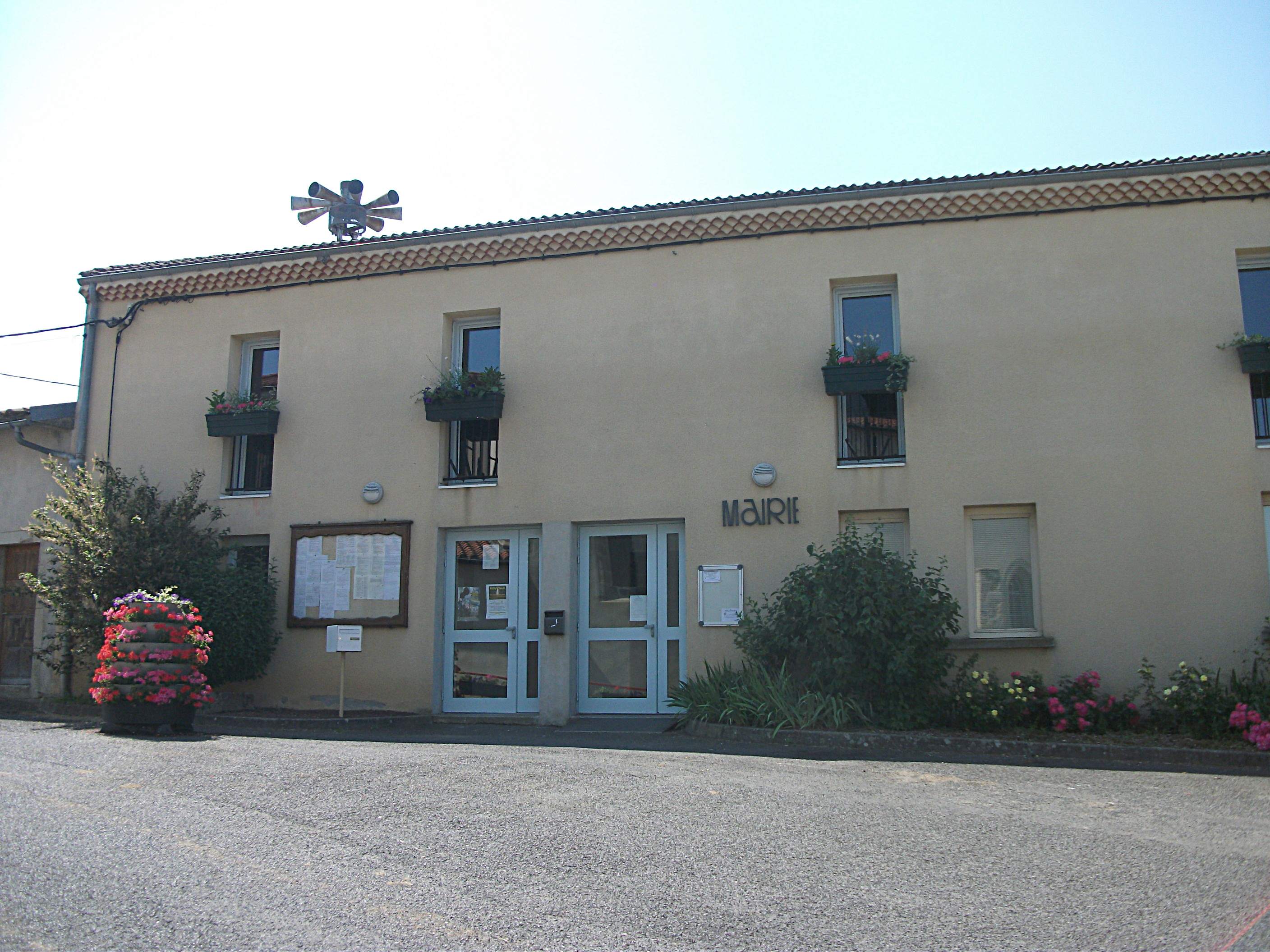 Town hall of Neuville, Puy-de-Dôme, Auvergne-Rhône-Alpes, France. [14730]